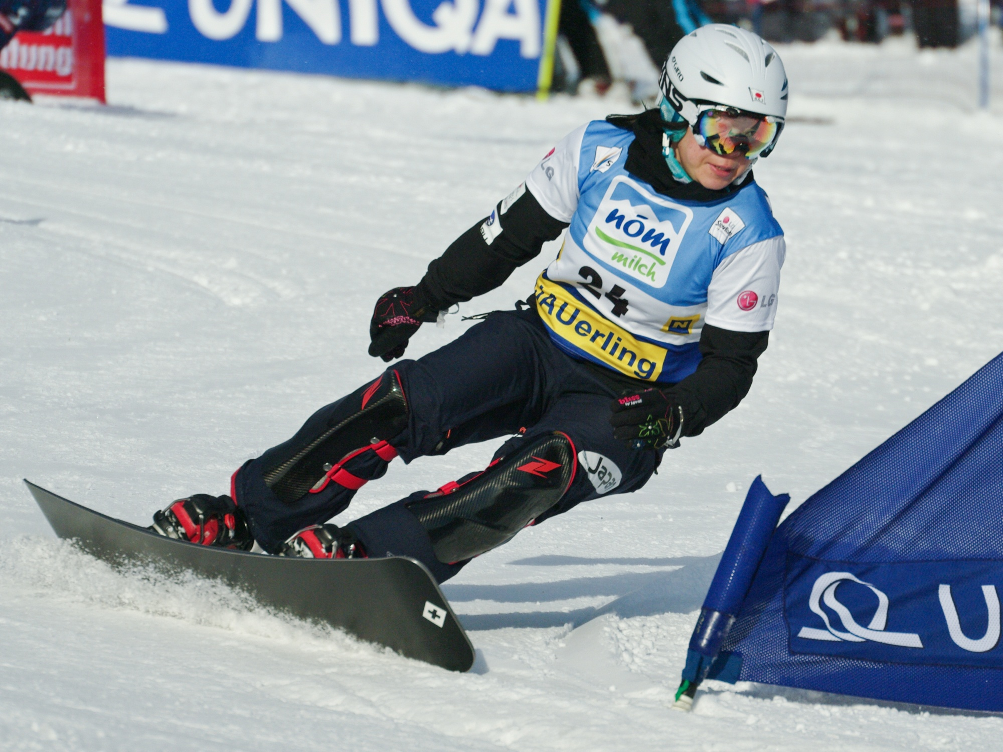 Japanese snowboarder Eri Yanetani in the qualification round of the World Cup Parallel Slalom at the Jauerling in Austria on 13 January 2012.